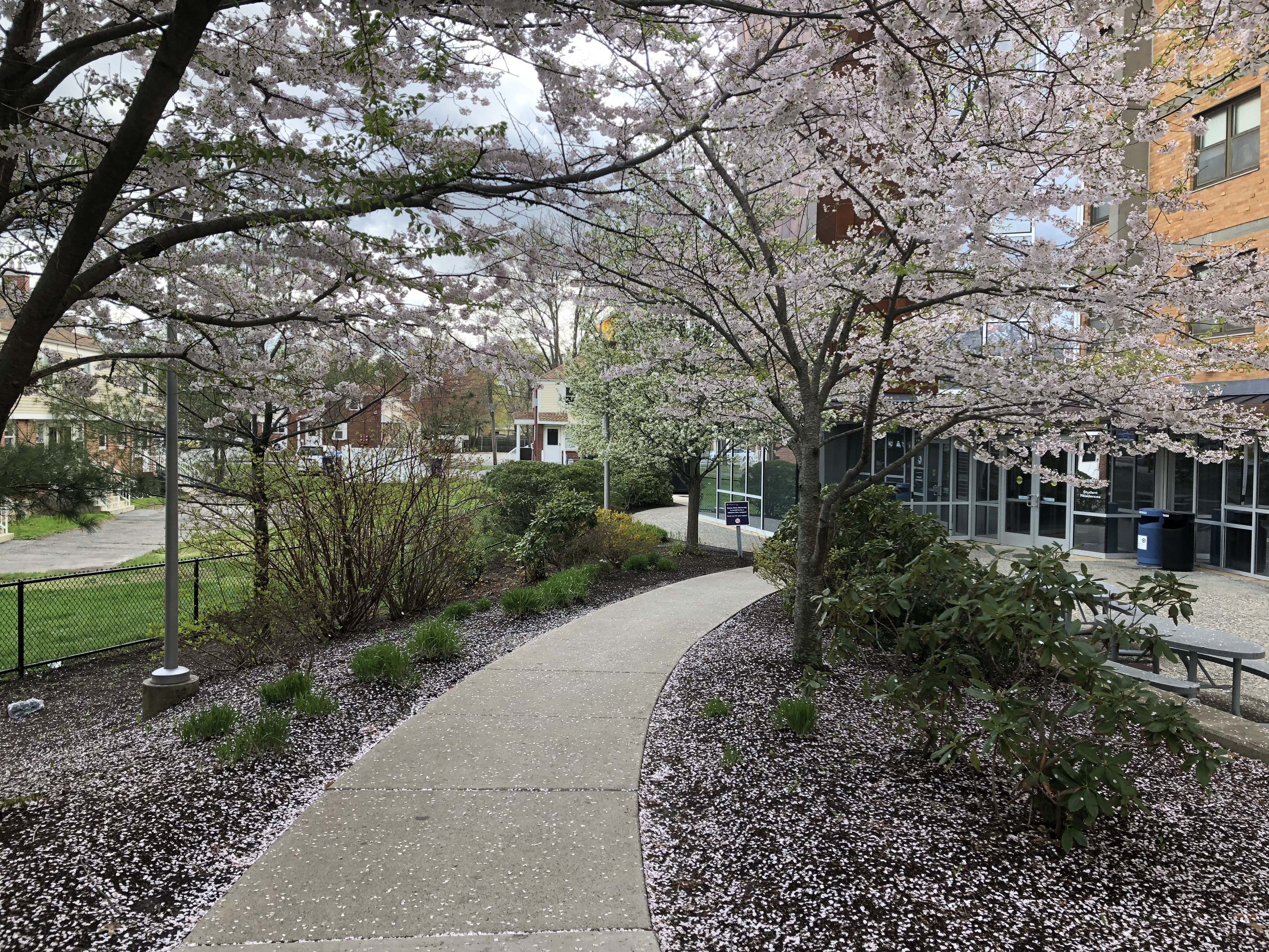 Walkway in Front of Salem State Bowditch Hall, April 30, 2019.